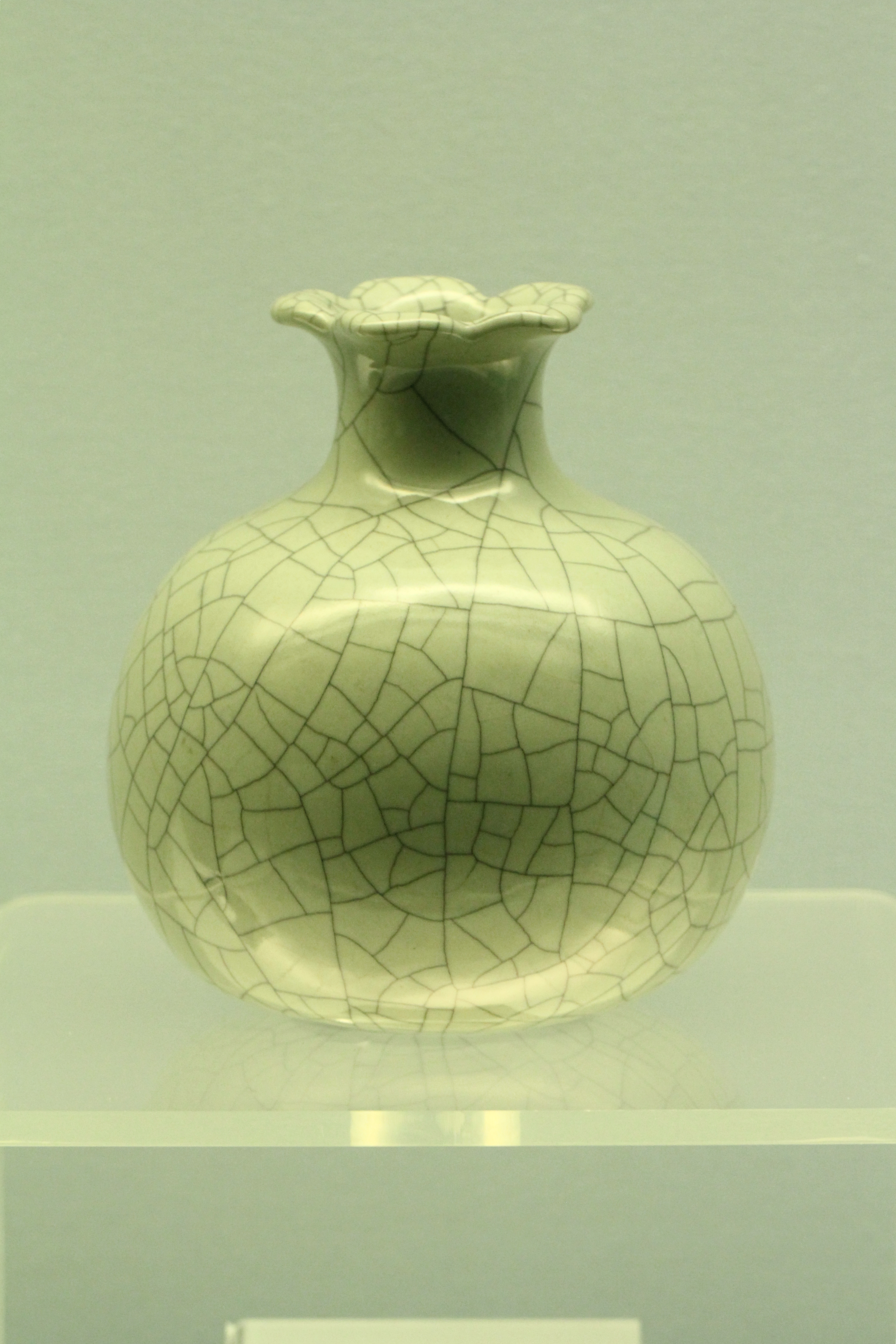 Ge-type pomegranate-shaped Zun. Jingdezhen Ware. Yongzheng Reign (A.D. 1723-1735), Qing.